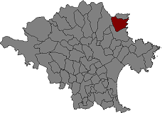 Location of Colera in Alt Empordà